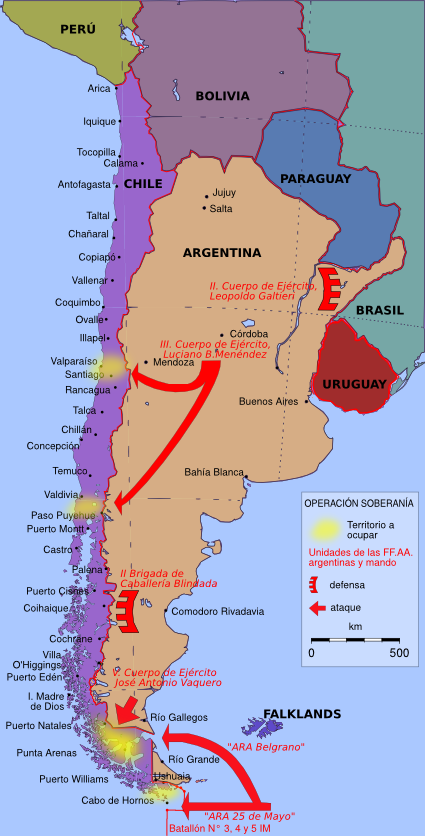 operation soberania